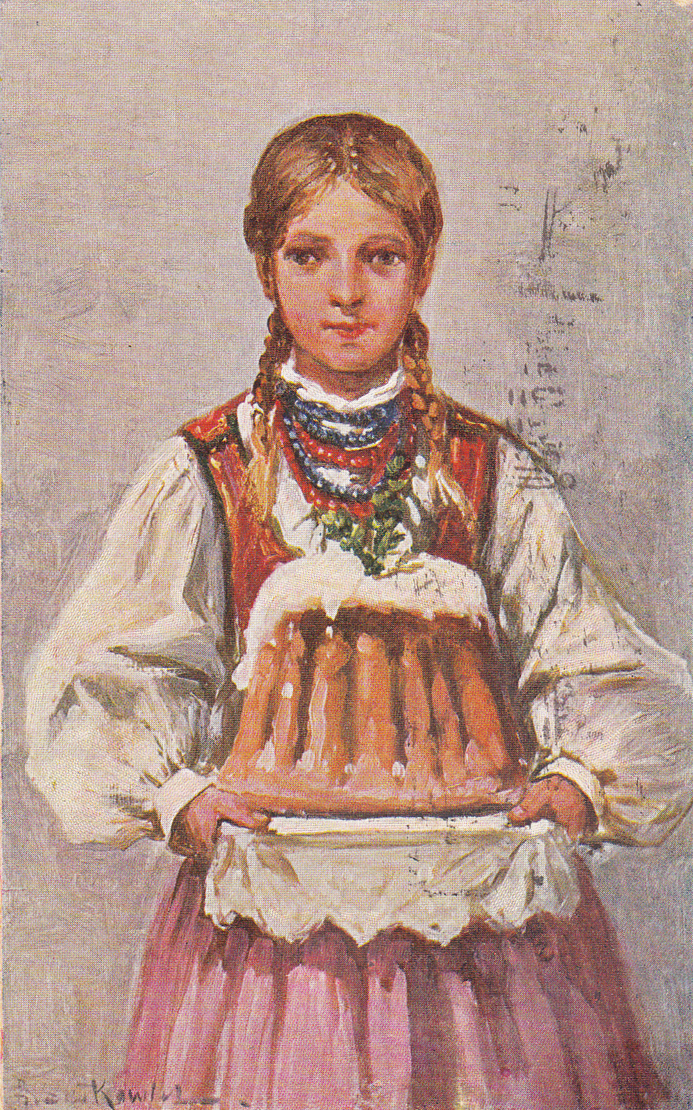 Adam Setkowicz, Girl in traditional costume. "Happy Easter" ("Hallelujah!"). Postcard sent on 11 April 1936. Publisher: Polonia Kraków.